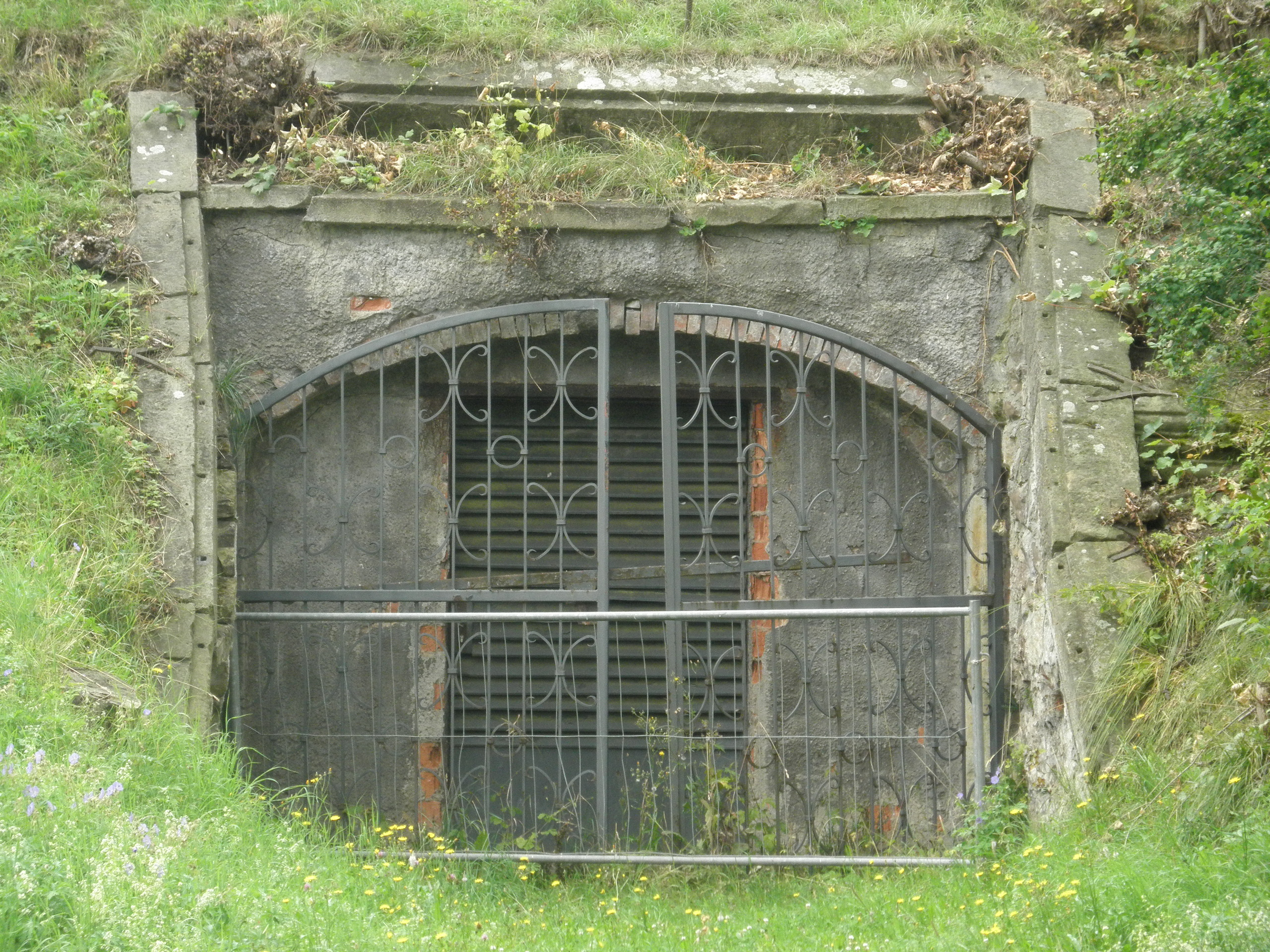 Entrance to Casemates in Castle Friedenstein in Gotha